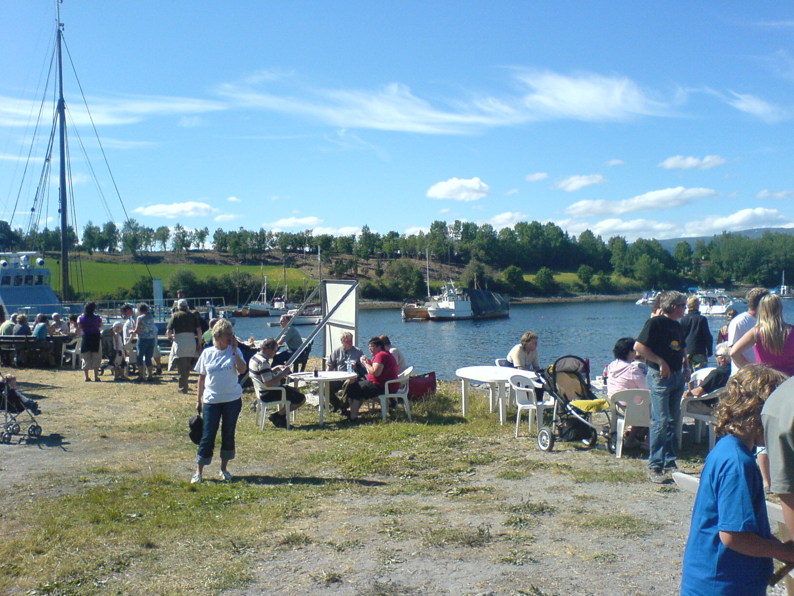 “Boat party” at Kjerknesvågen in Inderøy municipality (Norway) in June 2007.